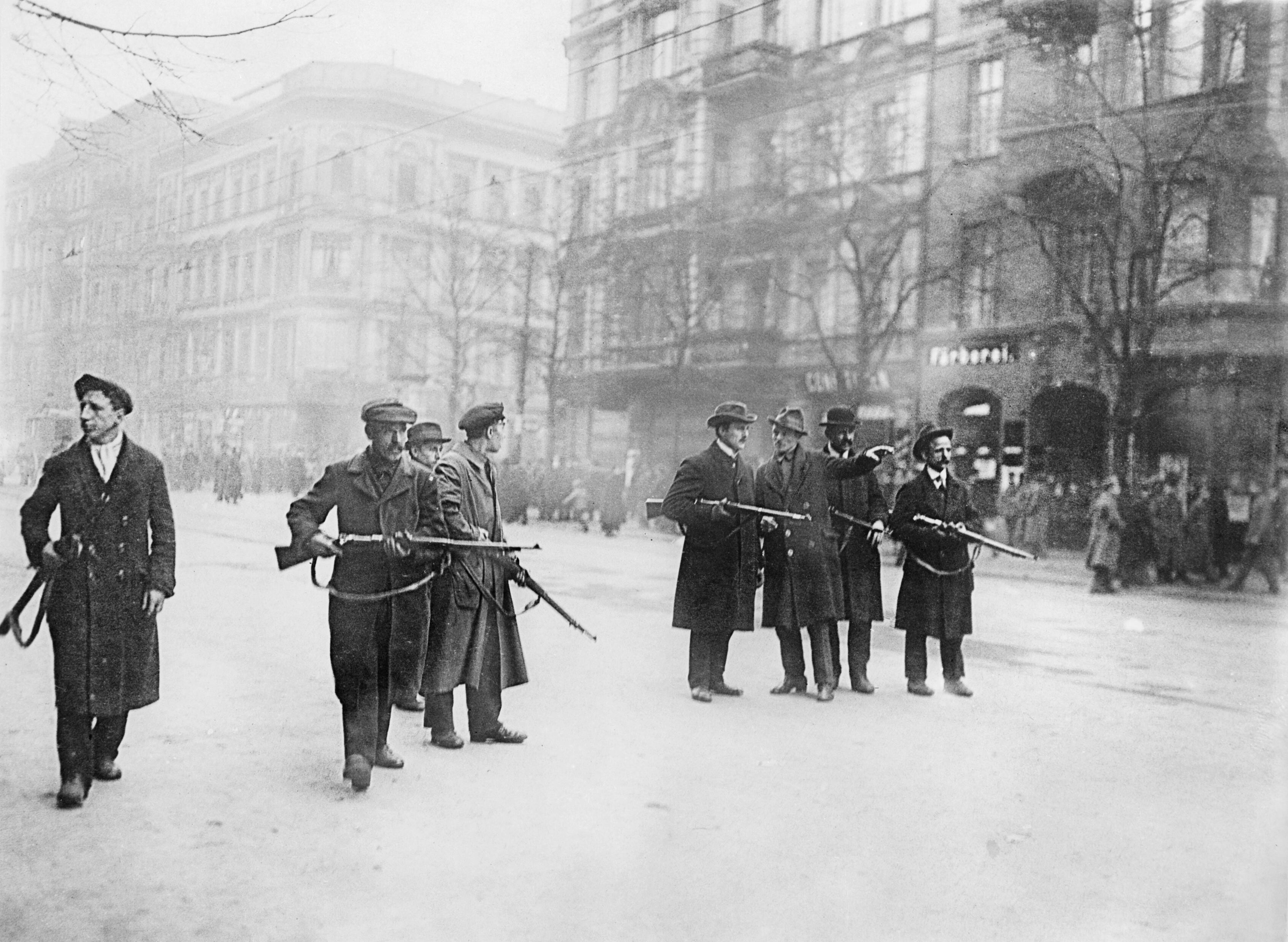 Spartacist irregulars holding a street in Berlin.